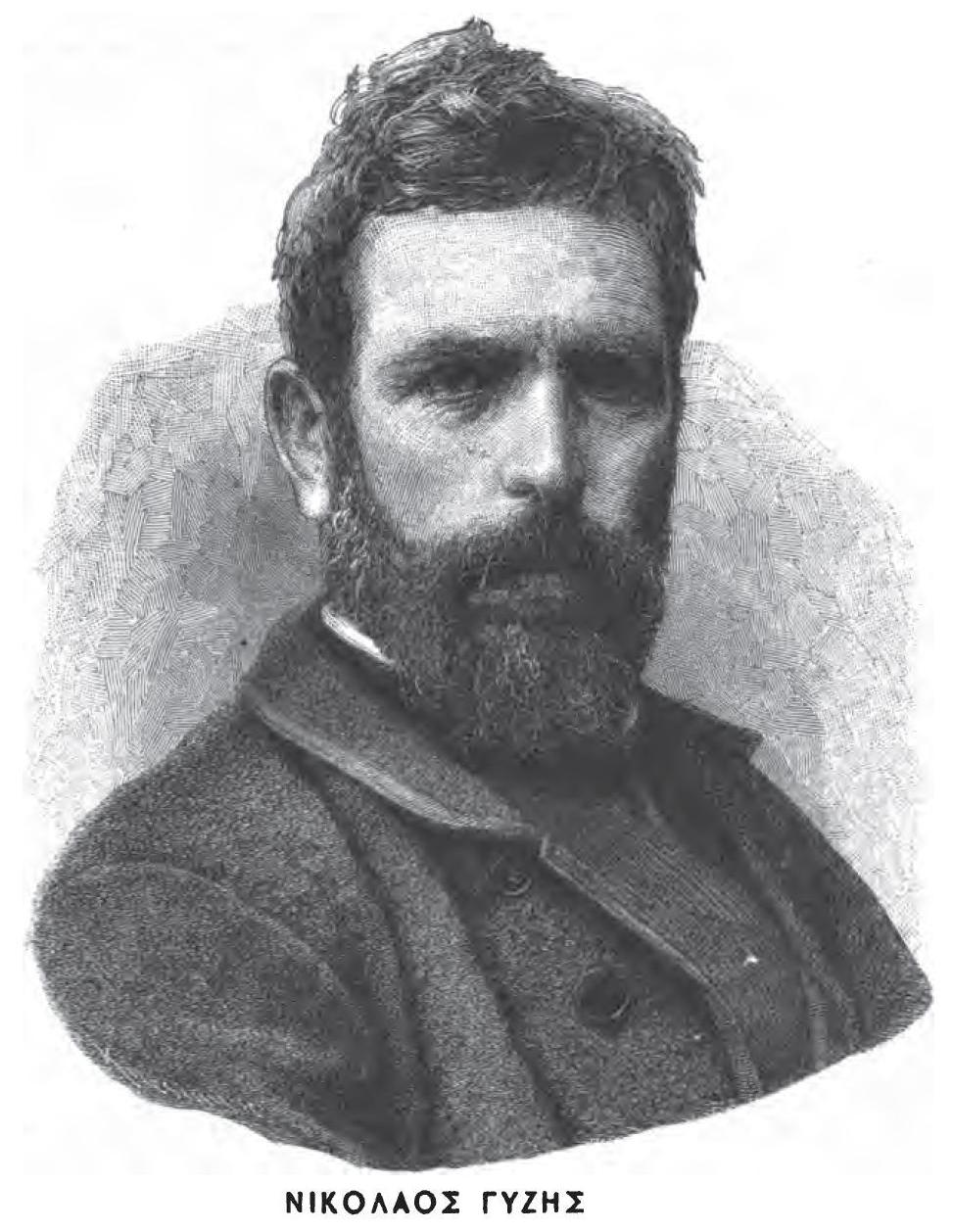 Hestia (1876) Author: Diomedes, Paulos Subject: Greek literature, Modern; Greek periodicals Publisher: Athēnēsi : s.n. Year: 1894 Possible copyright status: NOT_IN_COPYRIGHT Language: Greek Digitizing sponsor: Google Book from the collections of: Harvard University Collection: americana